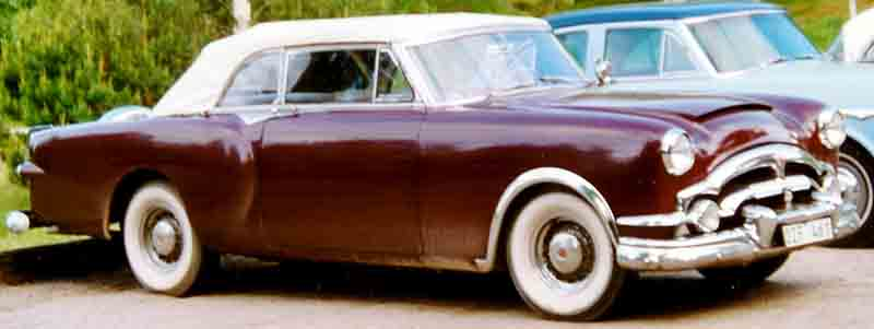 Packard Caribbean Convertible 1953